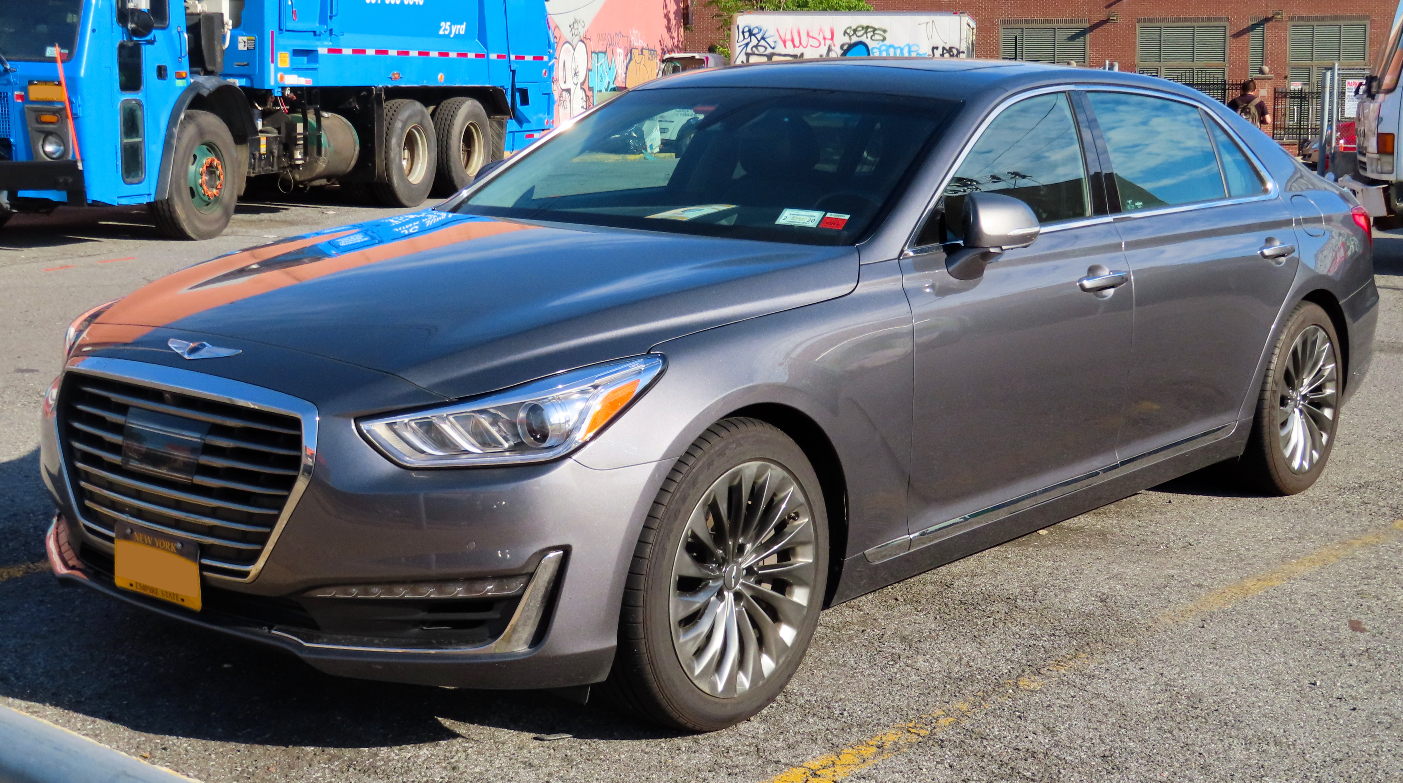 A 2017 Genesis G90 Premium photographed in Flushing, Queens, New York, USA